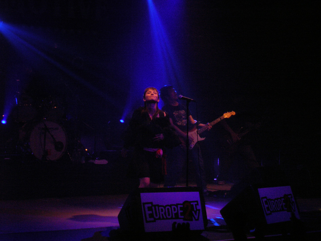 Author : Gorkab Nitrix Source : Olivia Lufkin's 2007 Paris concert Taken with E5600 Nikon camera and resized using Adobe Photoshop CS